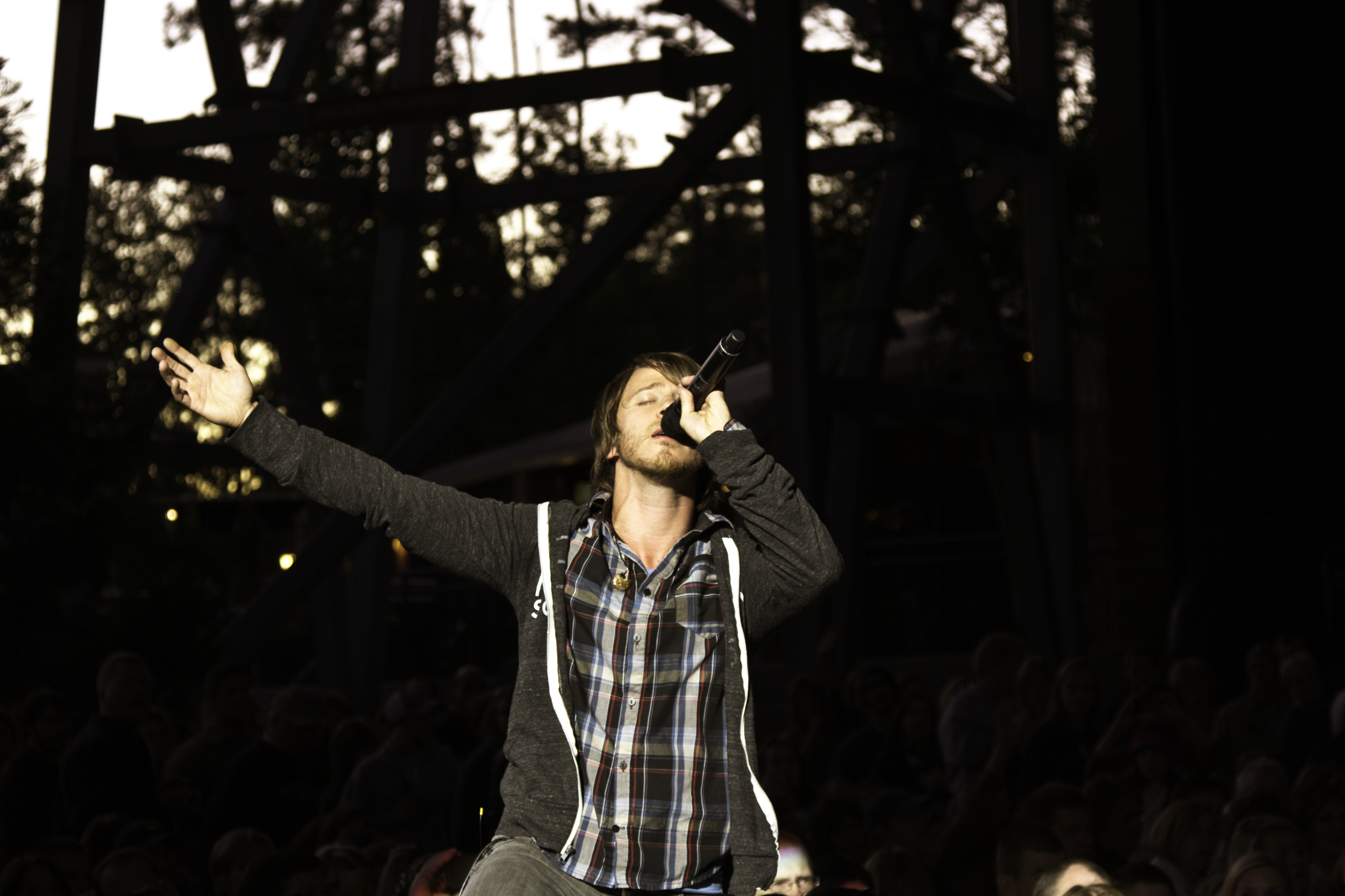 Mike Donehey (Tenth Avenue North) at Verizon Wireless Amphitheatre , October 1, 2011. Photo taken by Damon Ledet